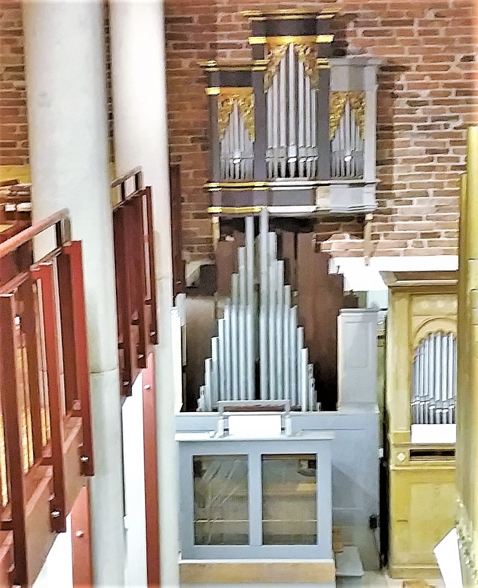 Orgel- und Spieltischsammlung im Untergeschoss der Zollingerhalle (Orgelzentrum Valley)